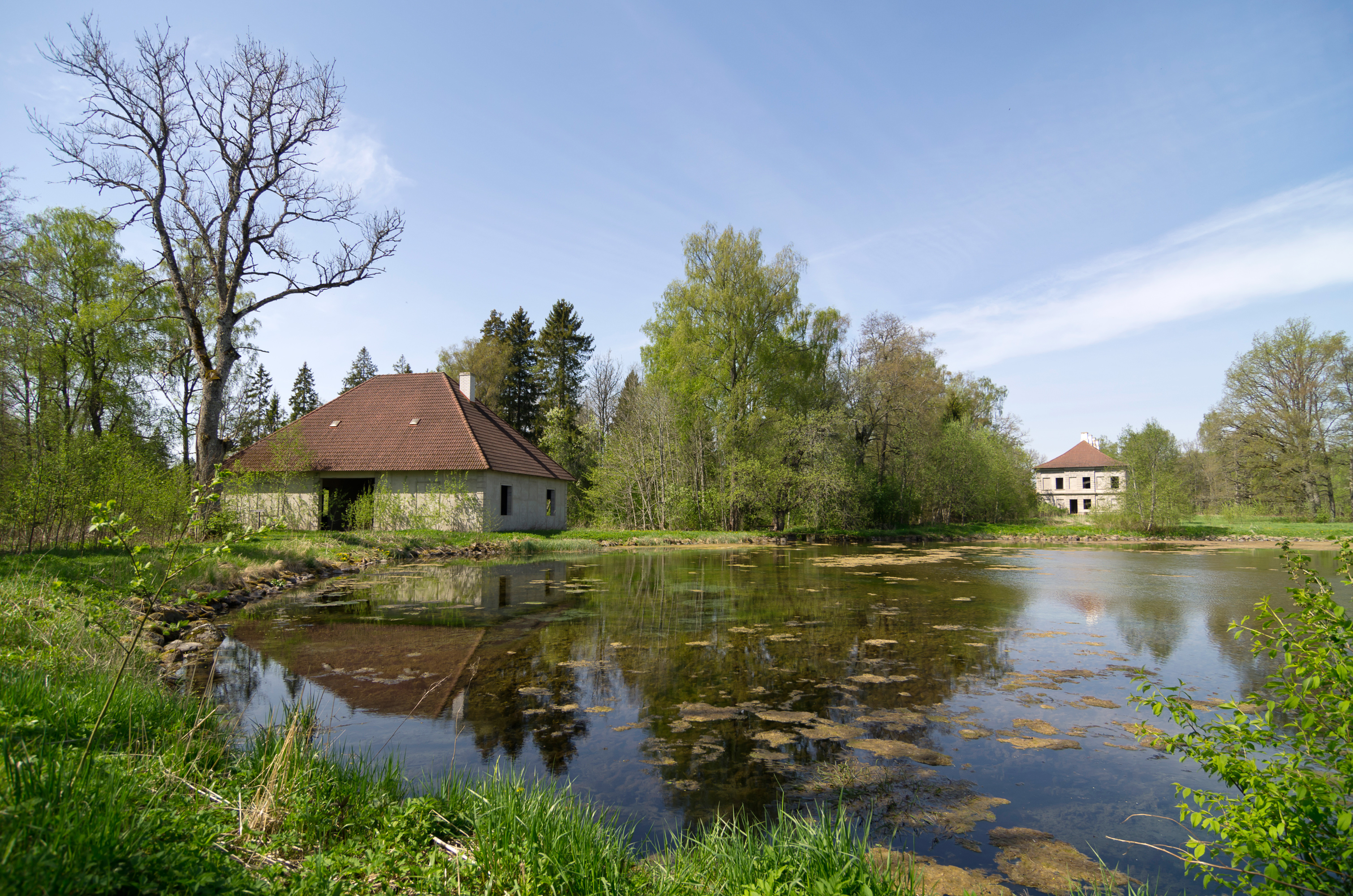 Spring pool in Norra Manor park